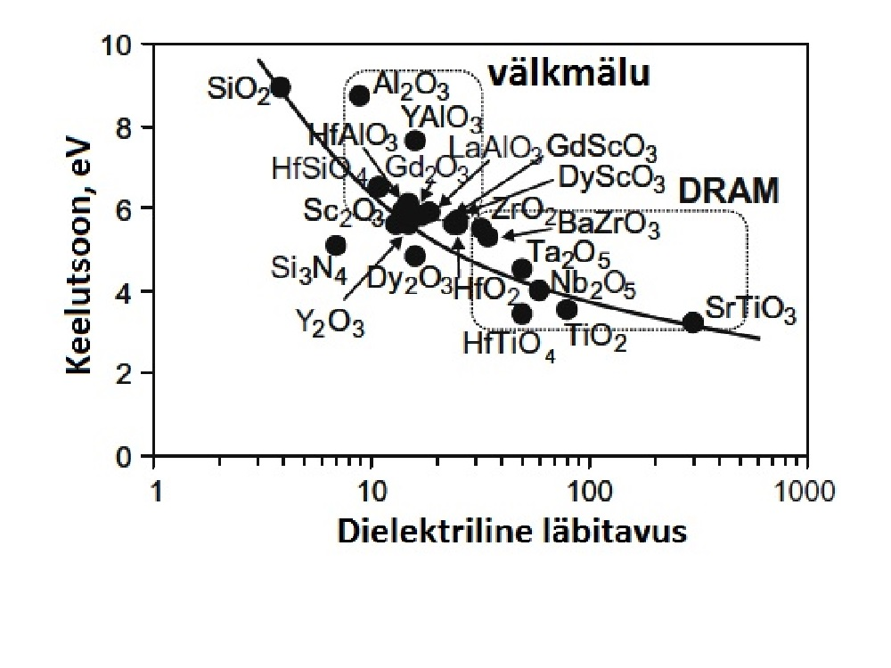 Erinevate dielektrikmaterjalide keelutsooni laius ja dielektriline läbitavus